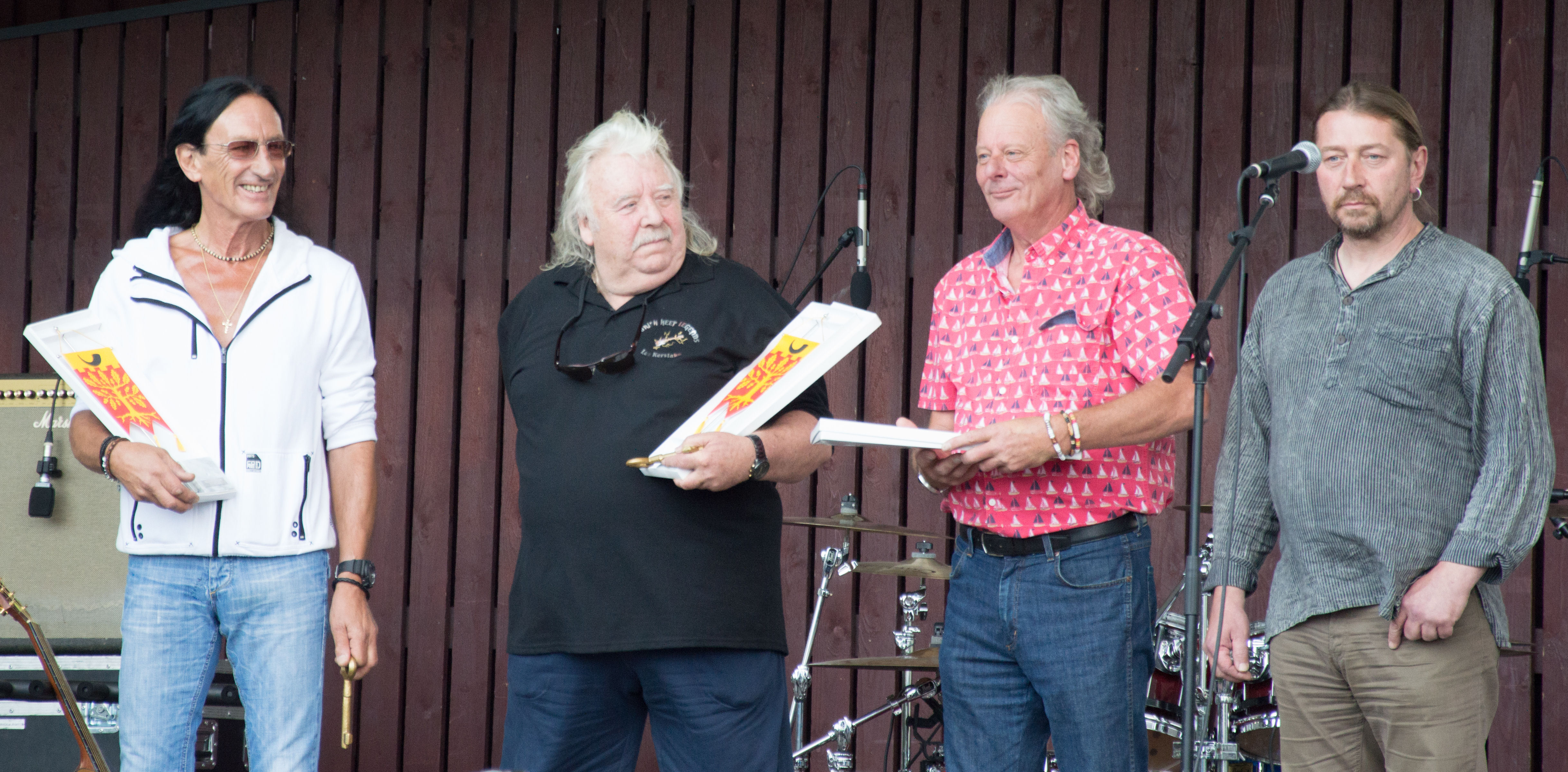 Uriah Heep in year 2012 Ken Hensley. Lee Kerslake, Paul Newton, Eirikur Hauksson